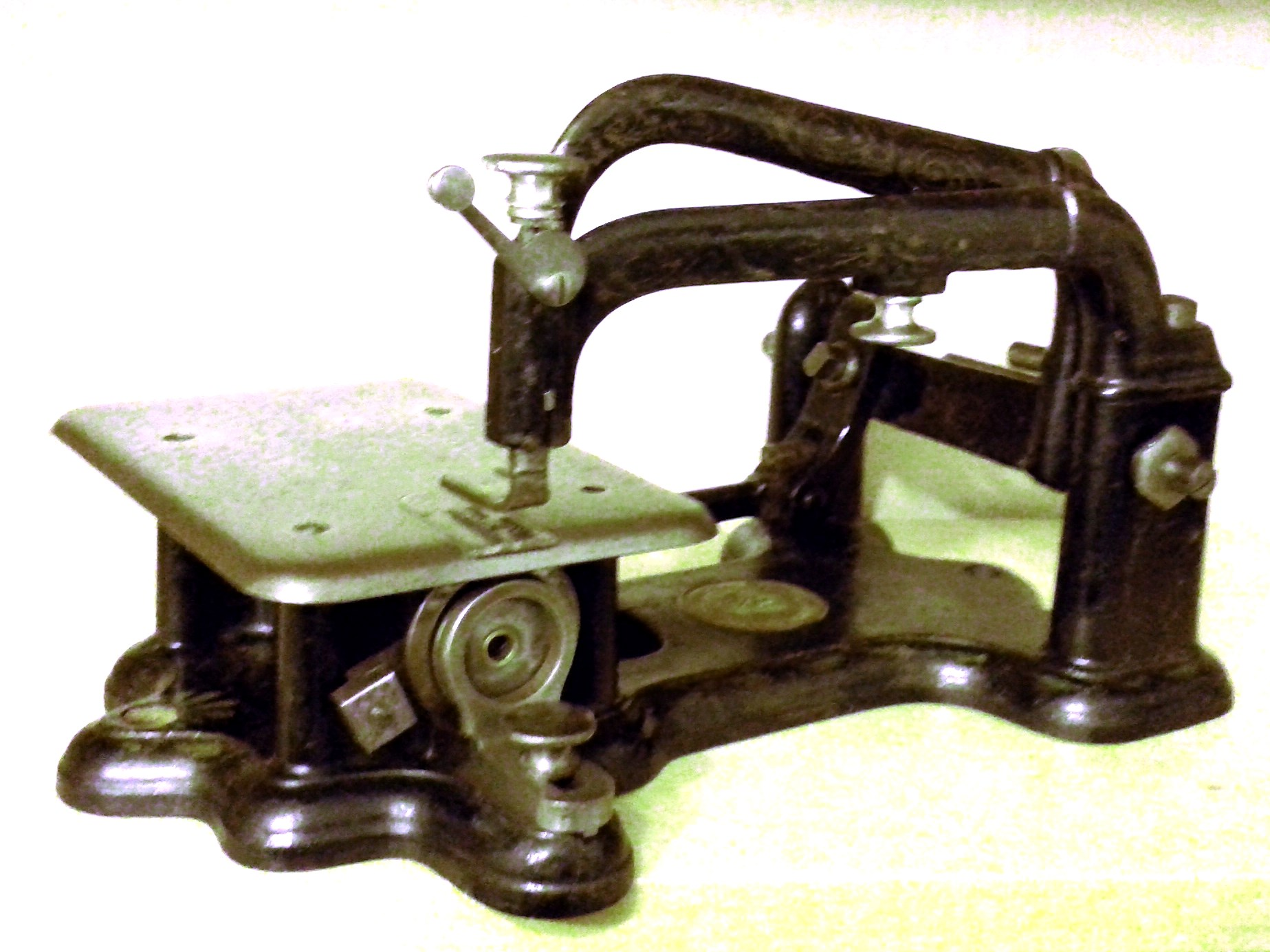 Wheeler and Wilson number 3. This machine is the true precurser of the modern lock-stitch sewing machine, since it incorporates the rotating hook principle and four motion feed invented by Allen B Wilson (1824-1888). Although Wilson patented his inventions in 1851 and 1854 respectively, the first sewing machine was not made until 1866. In this machine the underthread is contained in a disc bobbin which fits loosely in a ring-shaped holder. Interlocking of the two threads occurs when the loops of the needle thread are caught and extended by the revolving hook and passed under the bobbin. The presser-foot has an inset glass plate which allows the seamstress to observe the seam at the point of stitching. The machine was treadle driven.